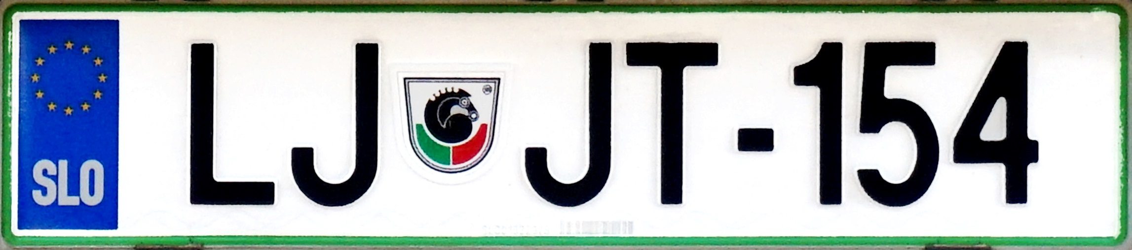 Slovenian license plate with the sticker of Grosuplje administrative unit